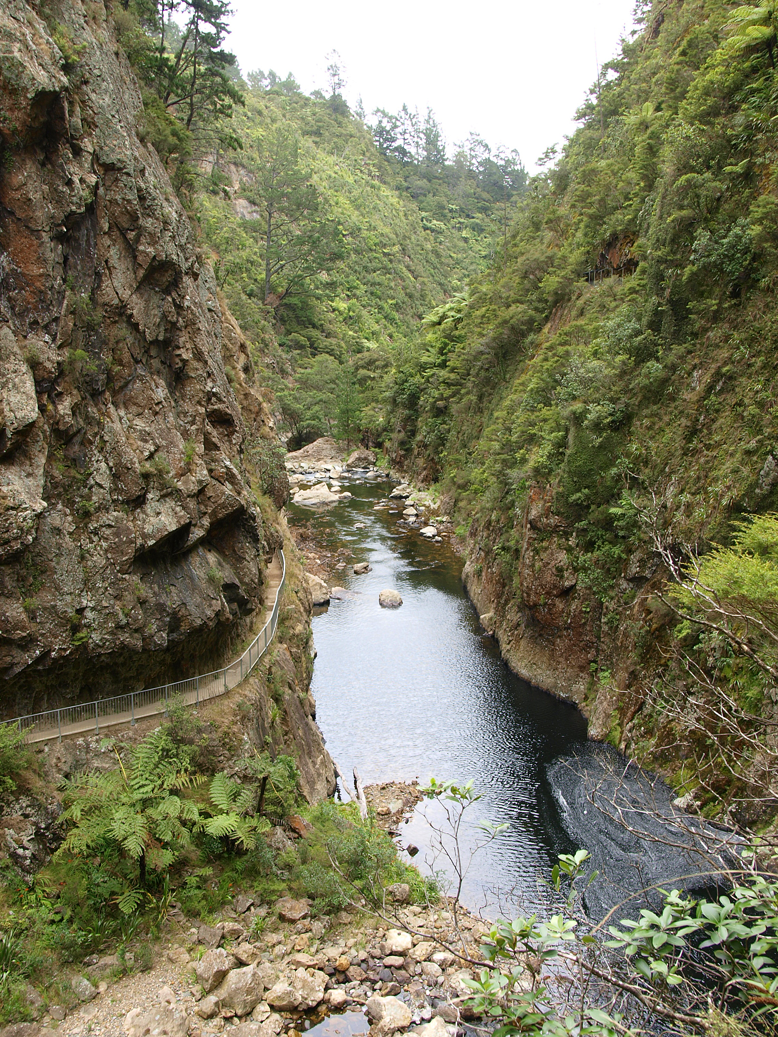 Karangahake Gorge, Coromandel Peninsula, North Island, New Zealand